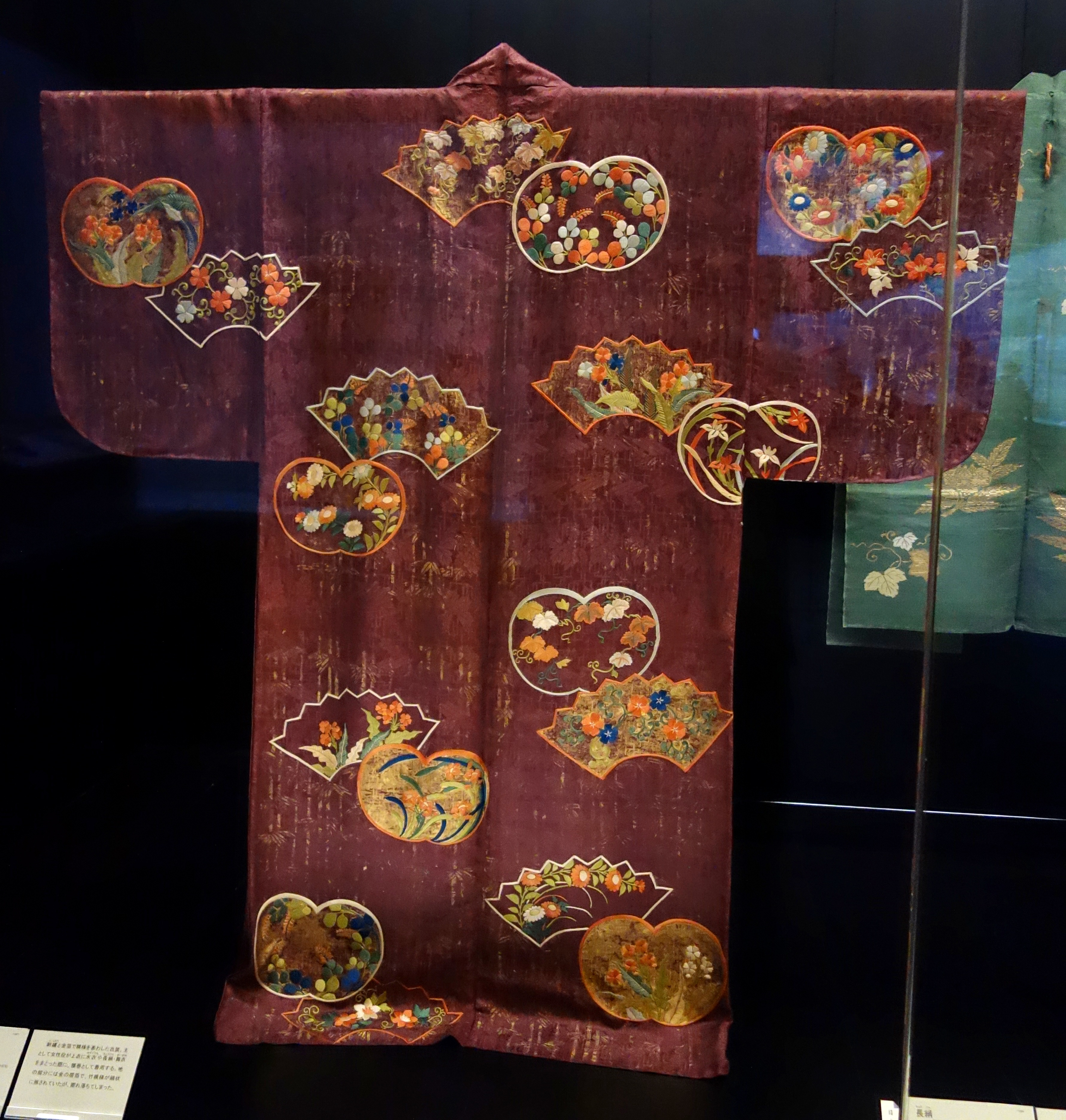 Exhibit in the Tokyo National Museum, Tokyo, Japan. This artwork is old enough so that it is in the public domain.